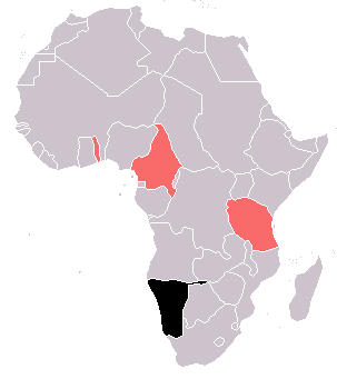 German South-West Africa (black), with other German colonies in red